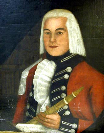 Portrait, probably of Thomas McKee, although sometimes identified as his father Alexander McKee. Original painting is in the collection of Museum Windsor, Windsor Ontario.